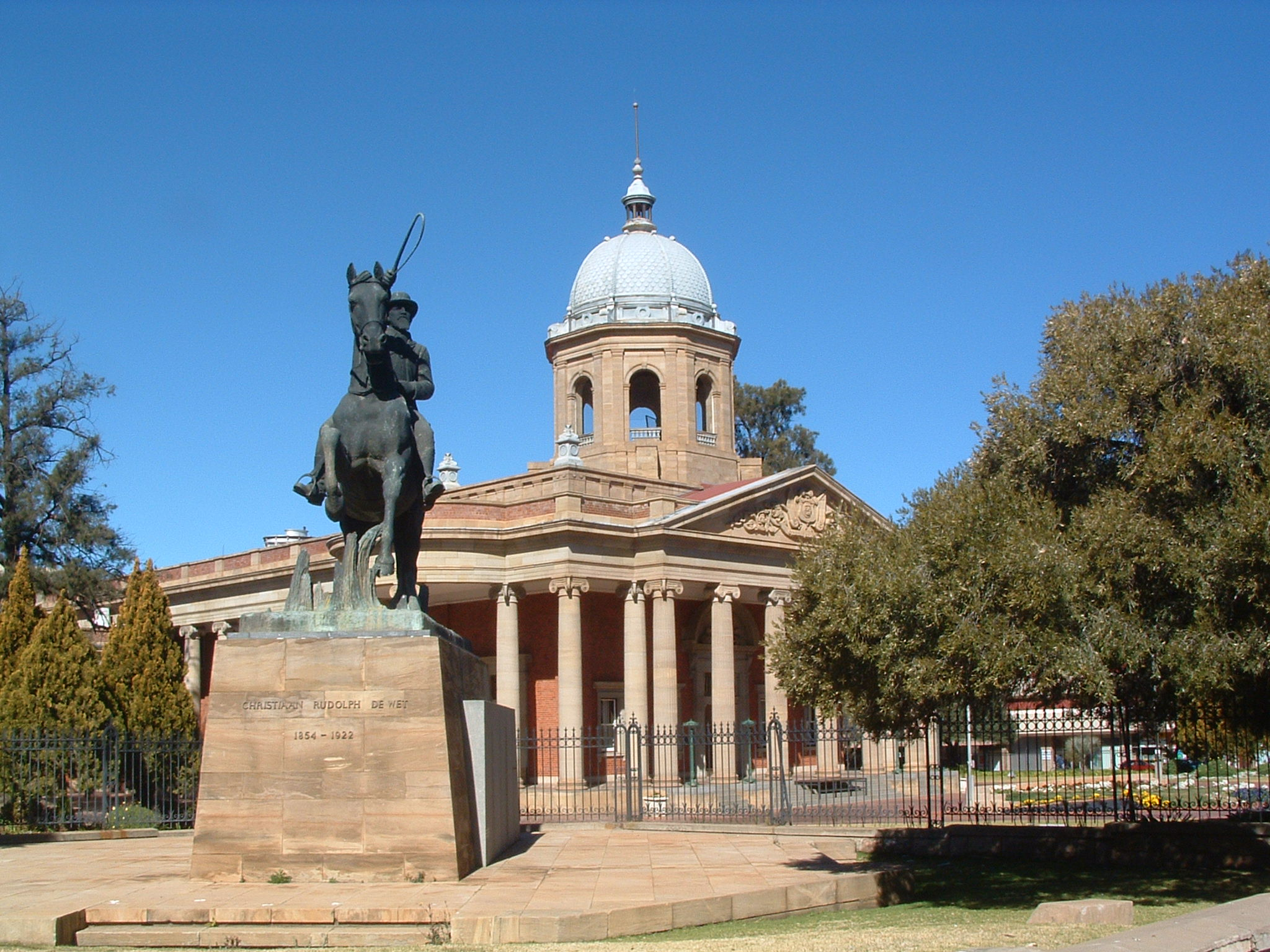 Parliament building in Bloemfontein, South Africa, with monument to Christiaan de Wet.